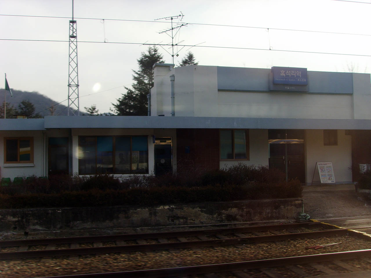 Honam Line Heukseok-ri Station (Heukseok-dong, Seo-gu, Daejeon, South Korea)